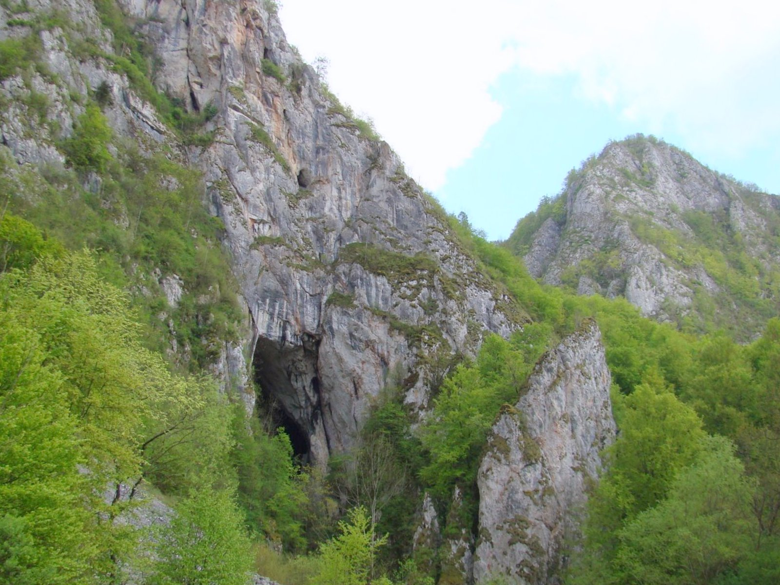 Huda lui Papară Cave